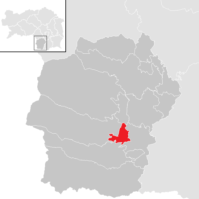 District Deutschlandsberg, Styria, Austria